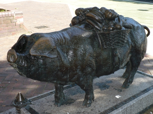 This Little Piggy Went To Market This sculpture is outside Newport Provisions Market. For full details